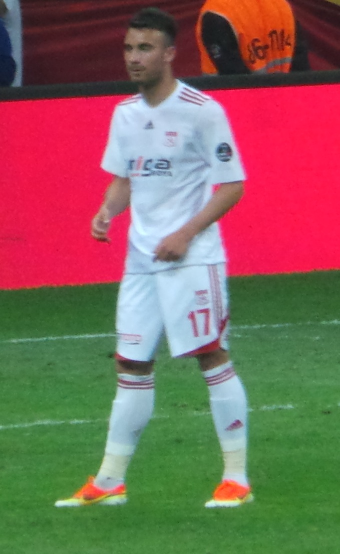 Cihan'13